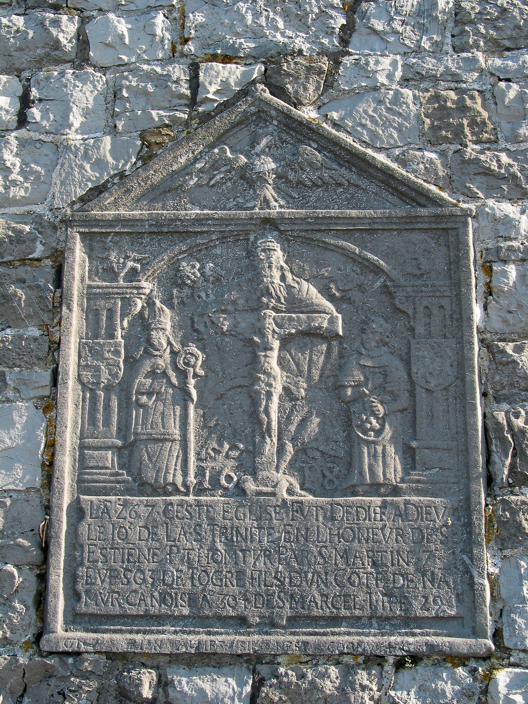 Huy (Belgique), dedicatory stone commemorating the consecration of the old St. Etienne-on-the-Mount church by the Bishop of Tongres (1671).